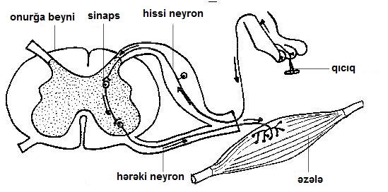 Anatomy and physiology of animals A reflex arc